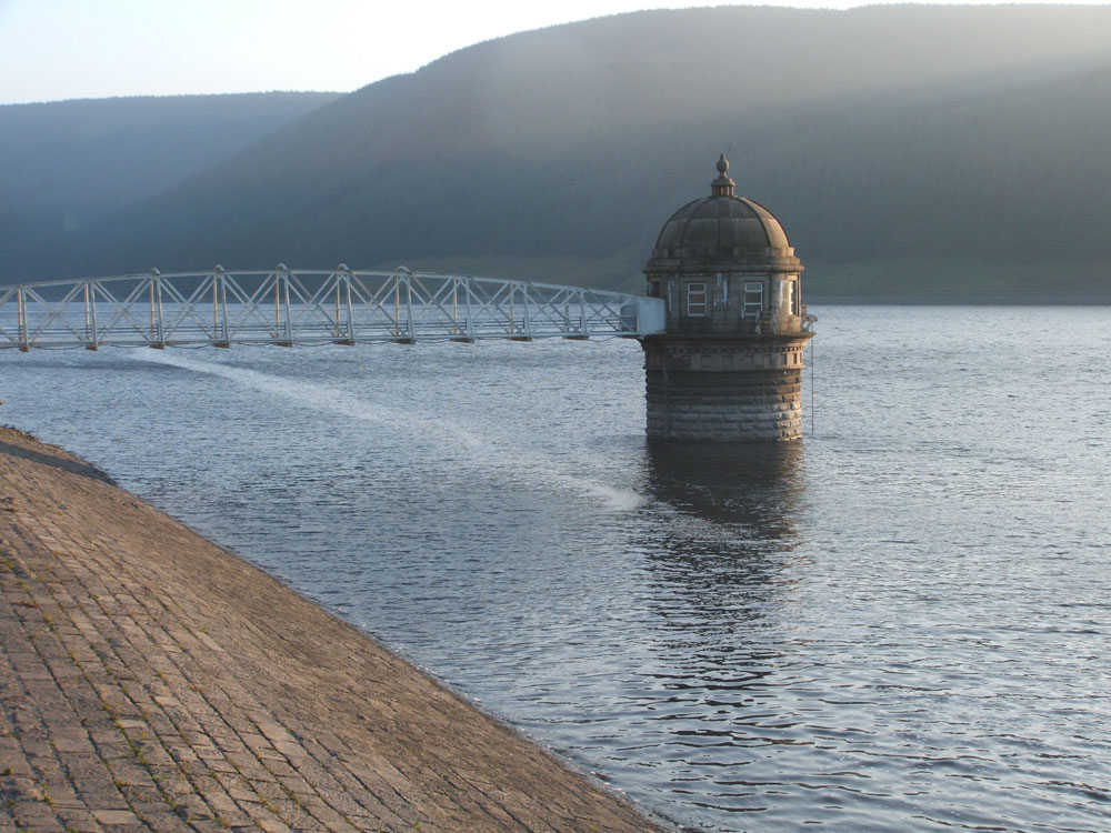 Talla Reservoir, near Tweedsmuir.